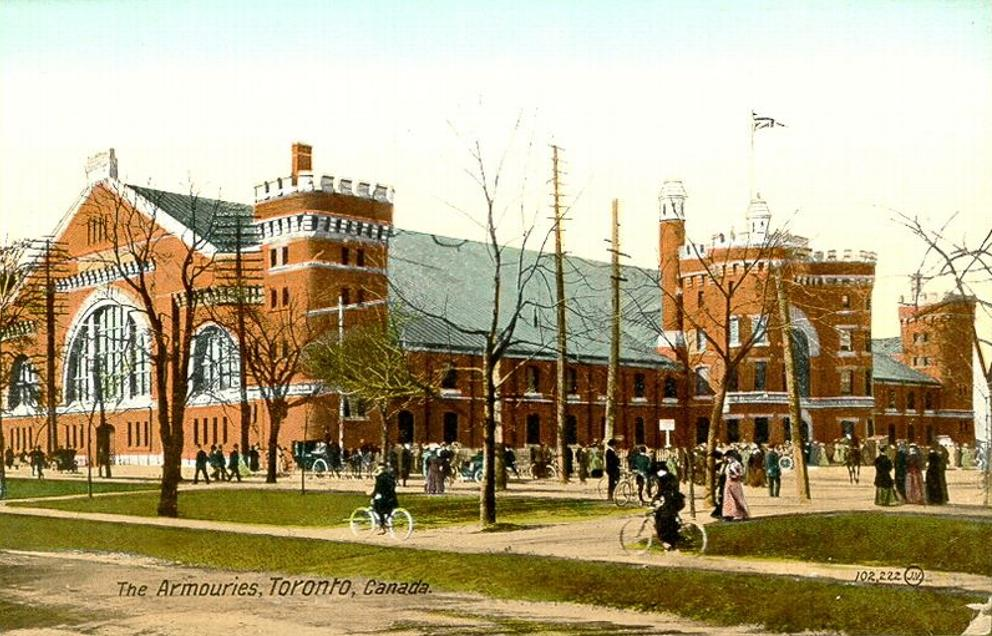 Postcard of the Toronto Armouries, Toronto, Canada.